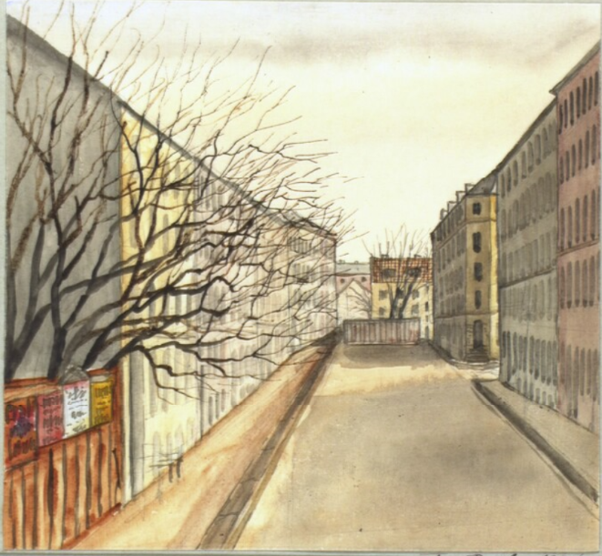 Ludvig Both: Ryesgade set fra Nørrebro med Huset, der skal nedbrydes for Gadens udvidelse